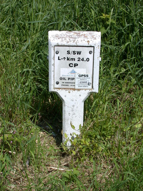 GPSS marker plate, near to Heydon, Cambridgeshire, Great Britain. A closer view of the marker seen in TL4241 : GPSS markers . S/SW indicates that this is on the Sandy-Saffron Walden link, and km 24.0 is the distance from Sandy. The up-arrow indicates that the normal flow is away from the observer looking at the notice. SGE are the operators of this section - Serco Gulf Engineering of Saffron Walden. This is probably an Official Secret.